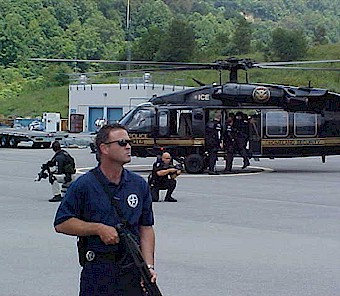 United States Marshals Service Prisoner Security and Transportation (Special production)